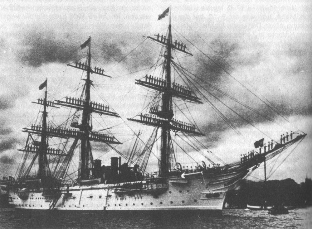 The German cruise frigate SMS Charlotte (launched 1885).